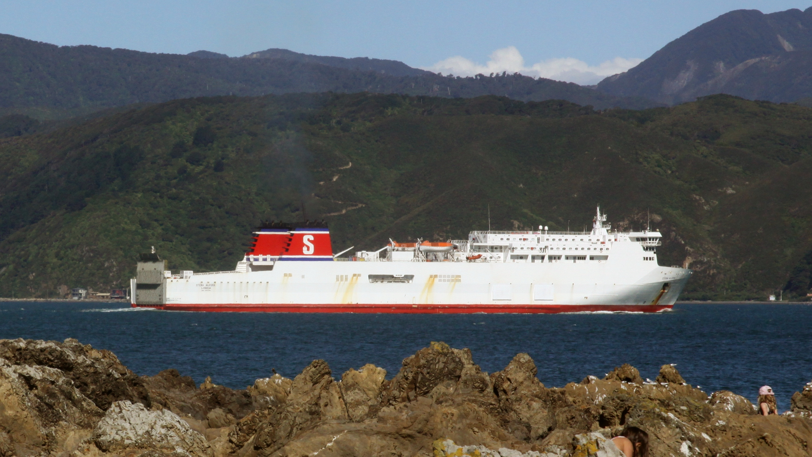 MS Stena Alegra leaving Wellington Harbour (photographed from Scorching Bay). Wellington, New Zealand.